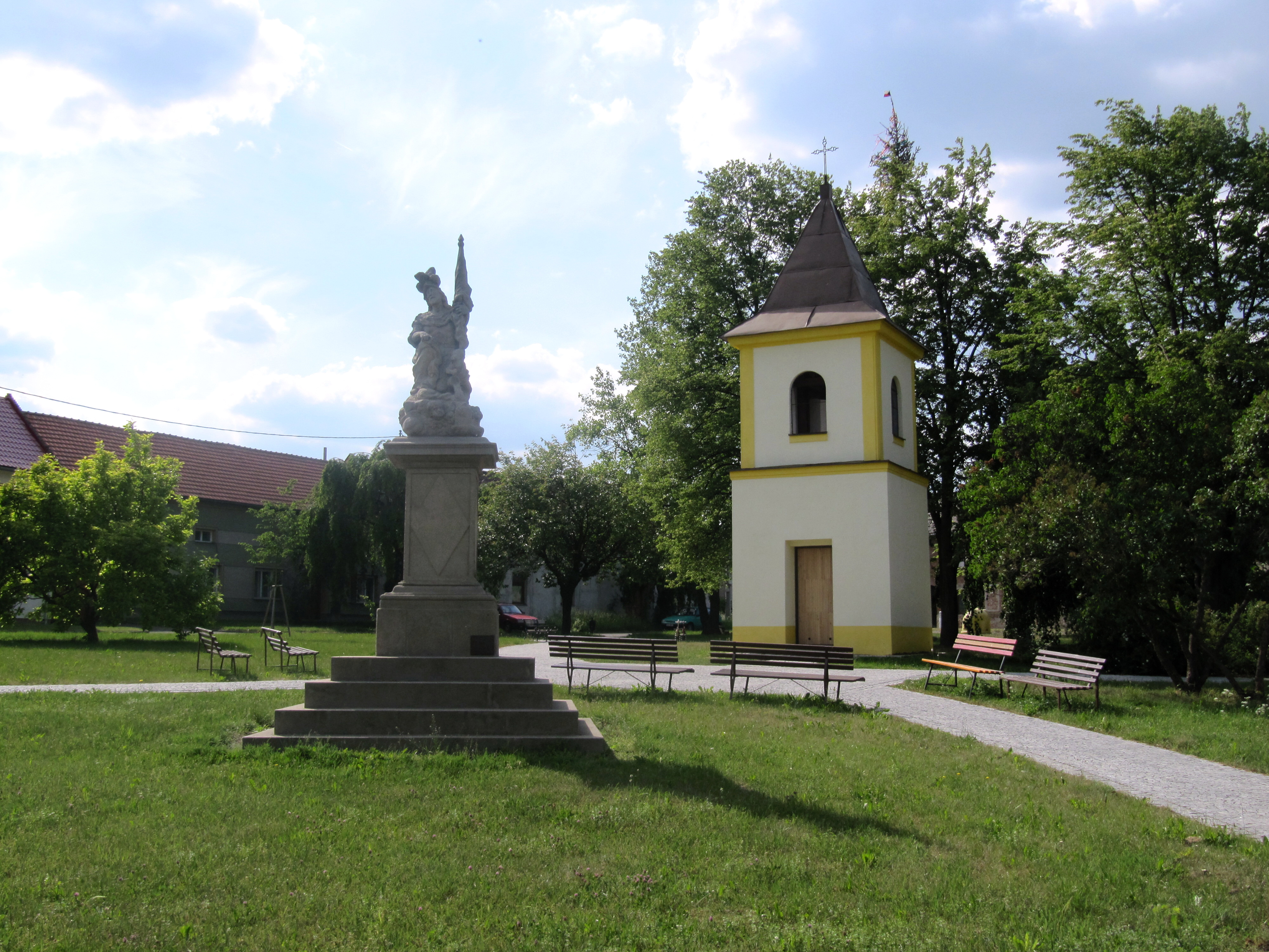 Střížovice in Kroměříž District, Czech Republic. Village square with belfry and Baroque statue of St. Florian.